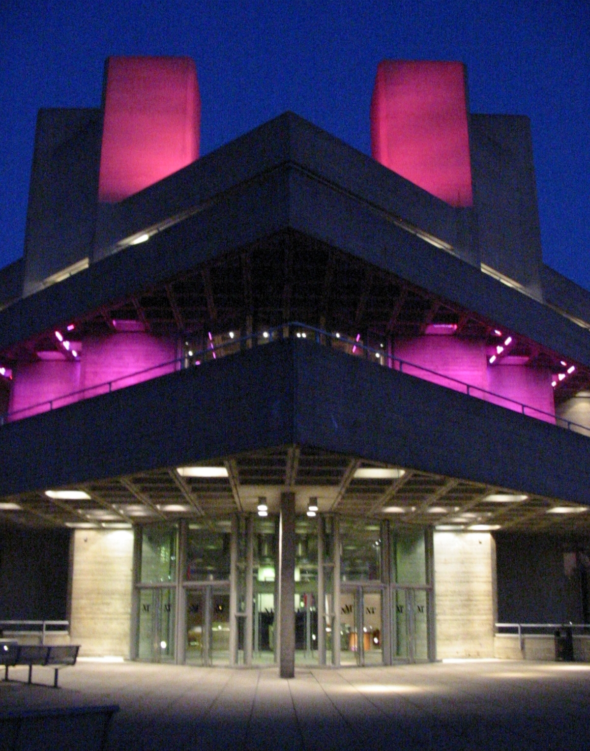 London